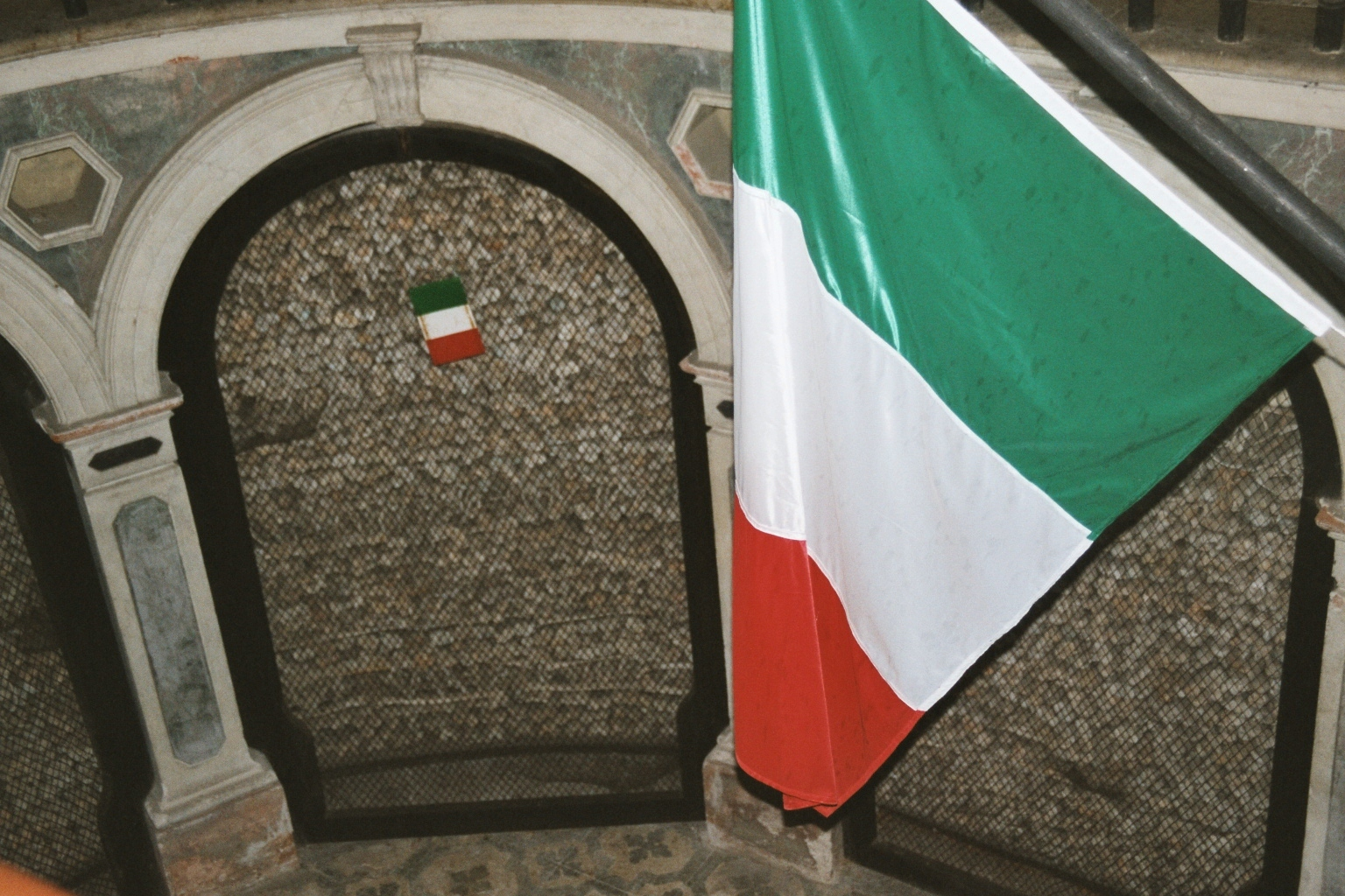 Ossuary in Solferino in Italy containing the bones of the soldiers who died in the battle of Solferino.